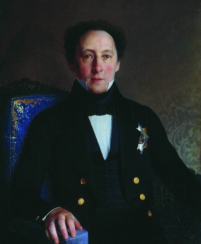 Portrait of Fedor Pryanishnikov by Sergei Zaryanko, oil on canvas, 1844